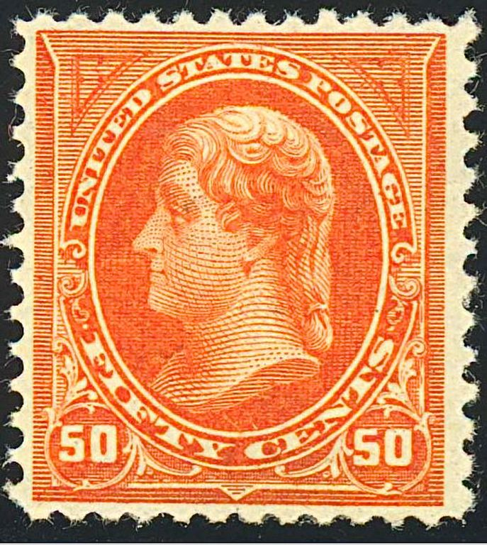 US Postage stamp, Jefferson, 1894 Issue, 50c